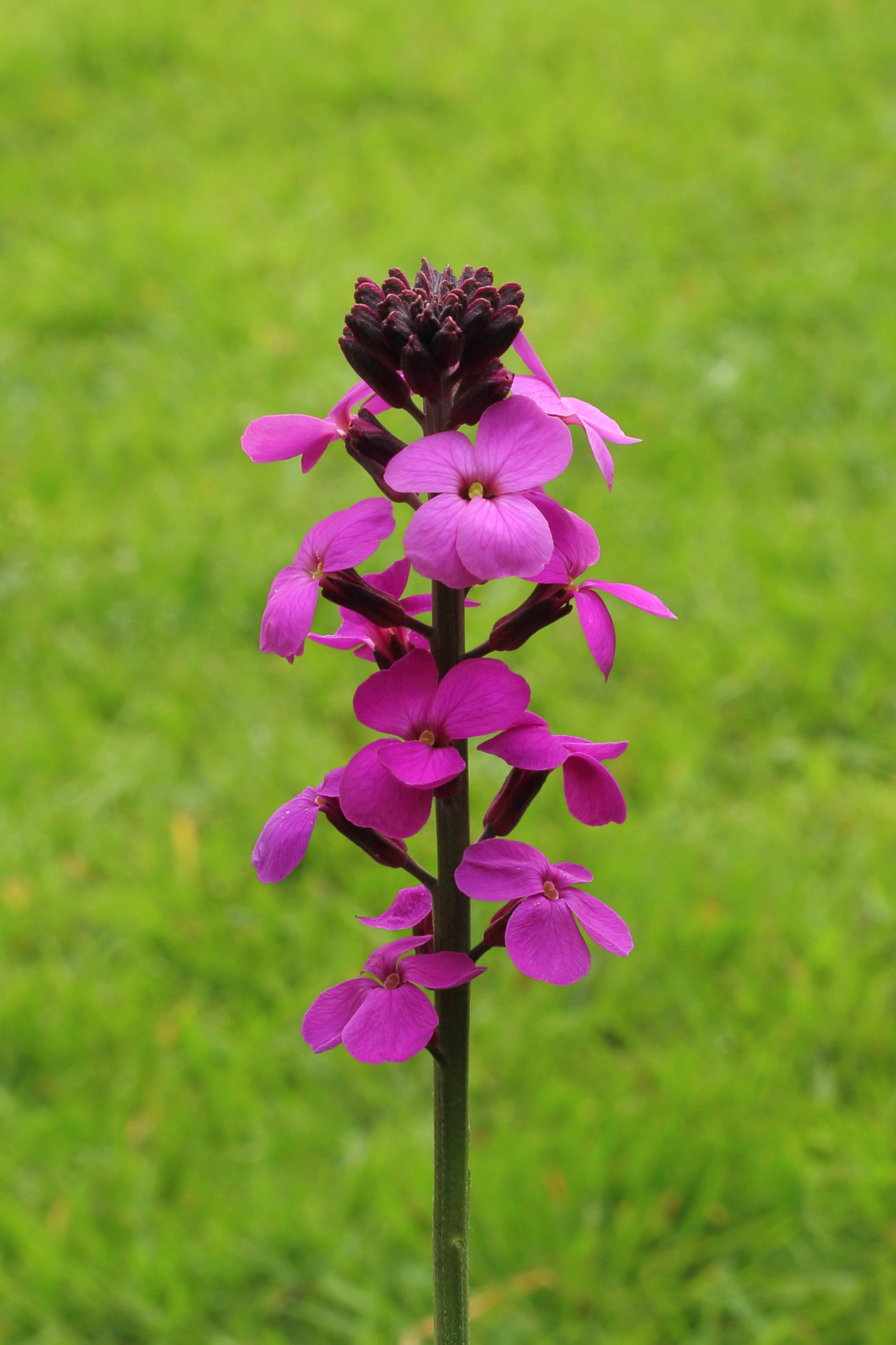 Erysimum 'Bowles Mauve'. Short-lived rich flowering plant.